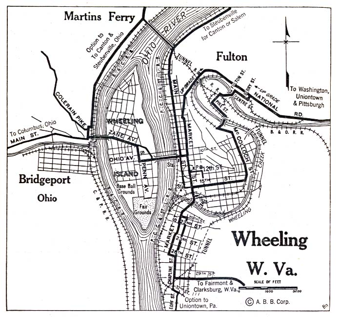 1920 map of Wheeling, West Virginia from the Automobile Blue Book